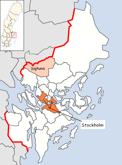 Sigtuna Municipality in Stockholm County Designed by me. Mere outlines are a PD source from